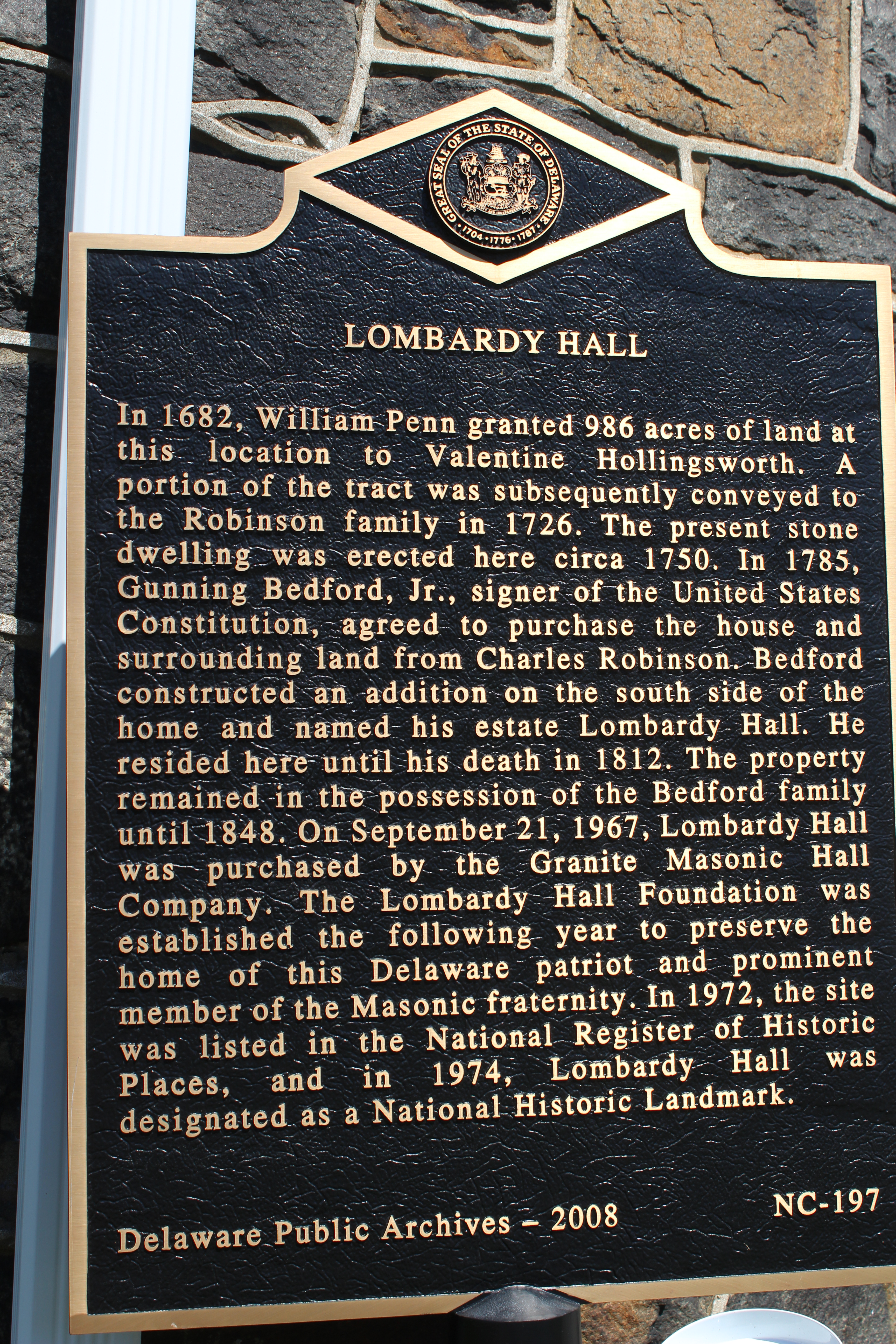 Plaque at Lombardy Hall in Wilmington, Delaware. Photo taken June 2020.